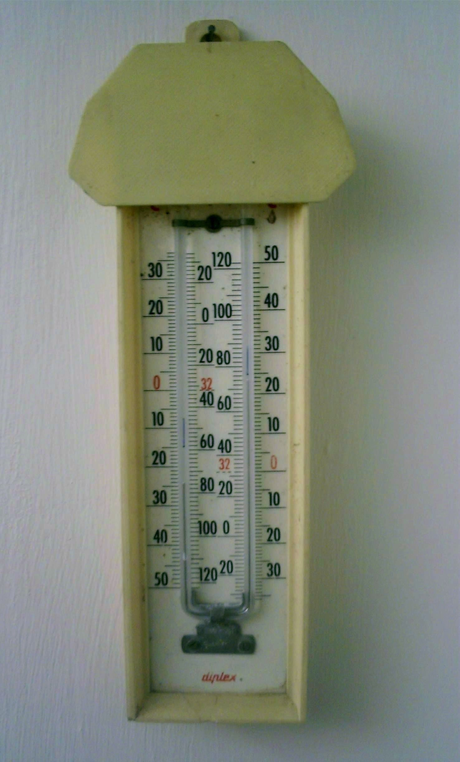 My own photograph of a Max min thermometer for use in Six's thermometer article Lumos3 22:14, 20 March 2006 (UTC) Summary A Maximum Minimum thermometer, also known as Six’s thermometer after its inventor. The scales are Fahrenheit on the inside of the U and Centigrade on the outside. The current temperature is 23 Centigrade, The maximum recorded is 25, and the minimum is 15, both read from the base of the small markers in each arm of the U tube. The bulbs are hidden by a plastic housing